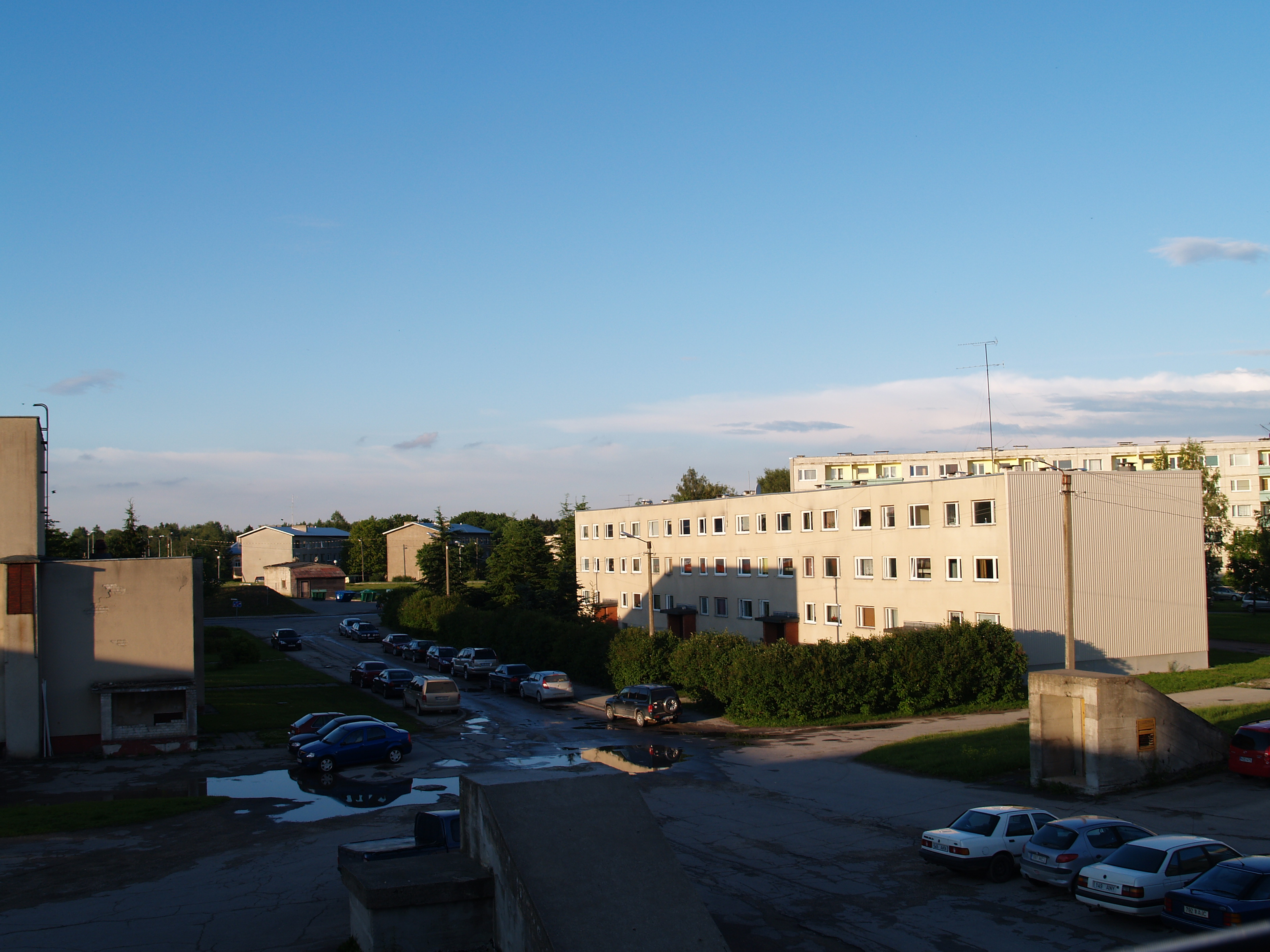 Kose. Part of the Hariduse (Education) street.